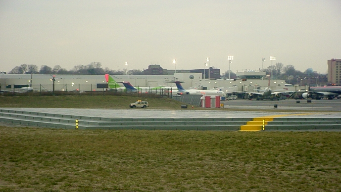 Higher Engineered Materials Arrestor System (EMAS) bed with side steps to allow Aircraft Rescue and Firefighting (ARFF) access and passenger egress.